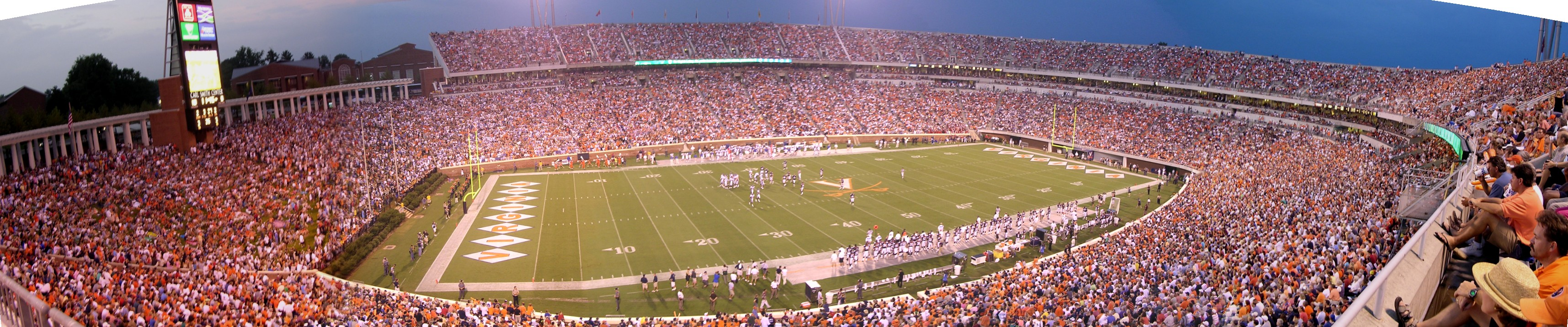 University of Virginia: Scott Stadium. "A panoramic view of 2003's season-opening Duke - Virginia game, attended by a then-stadium record 61,737 fans." (The sentence in quotation marks was copied from the caption of the image in the English Wikipedia article "Scott Stadium", in its version from 25 April 2007). Panorama photographed with a Nikon Coolpix 3100 and stitched together by James D. Maxwell.